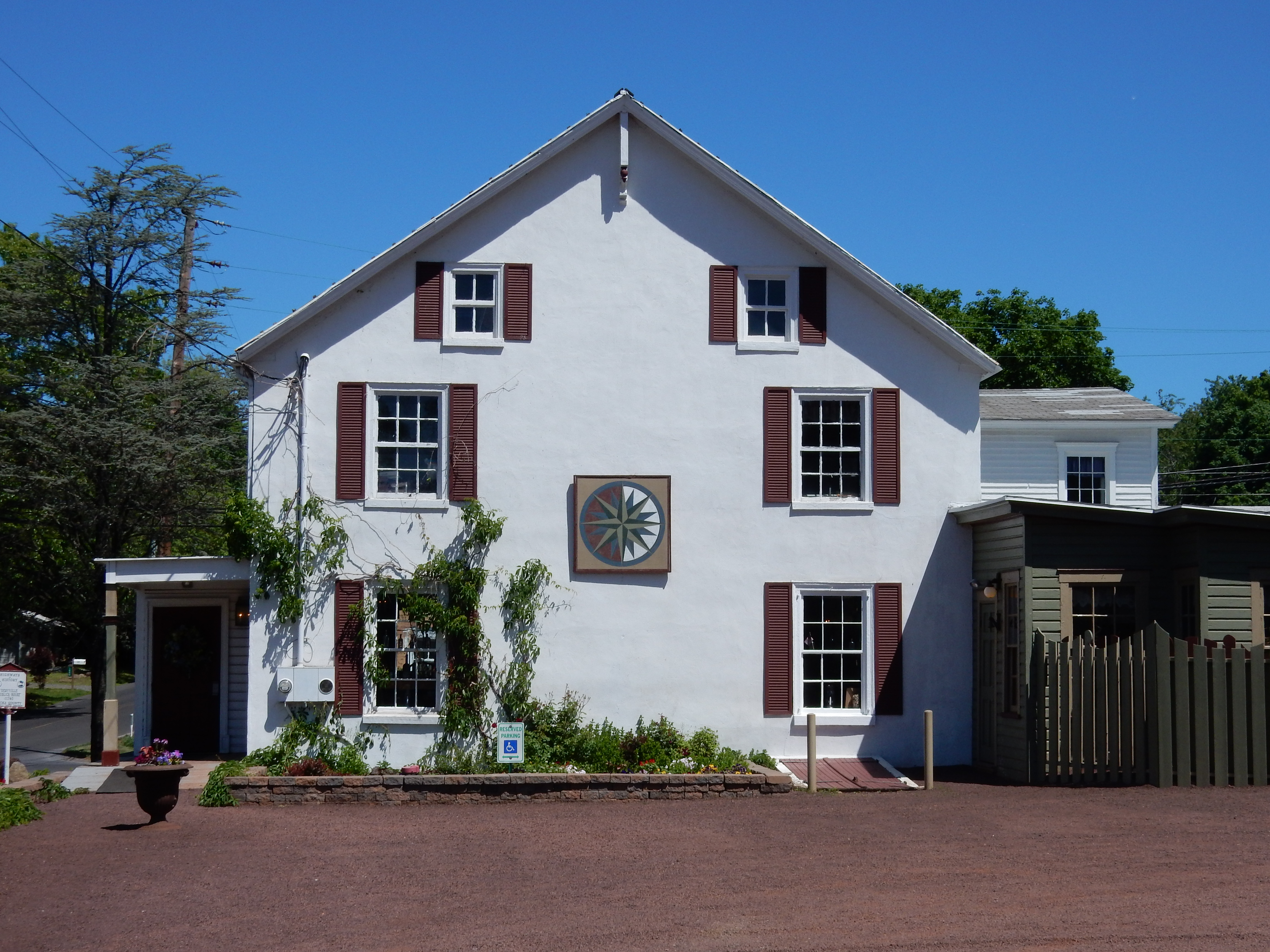 Historical Hotel Jamison Publick House in Geryville is built ca. 1745. Address: 1860 Geryville Pike, Pennsburg, PA. This part of the village locates in Bucks County, PA. Pennsburg, PA. Built c. 1745, currently it serves as a restaurant/bar.